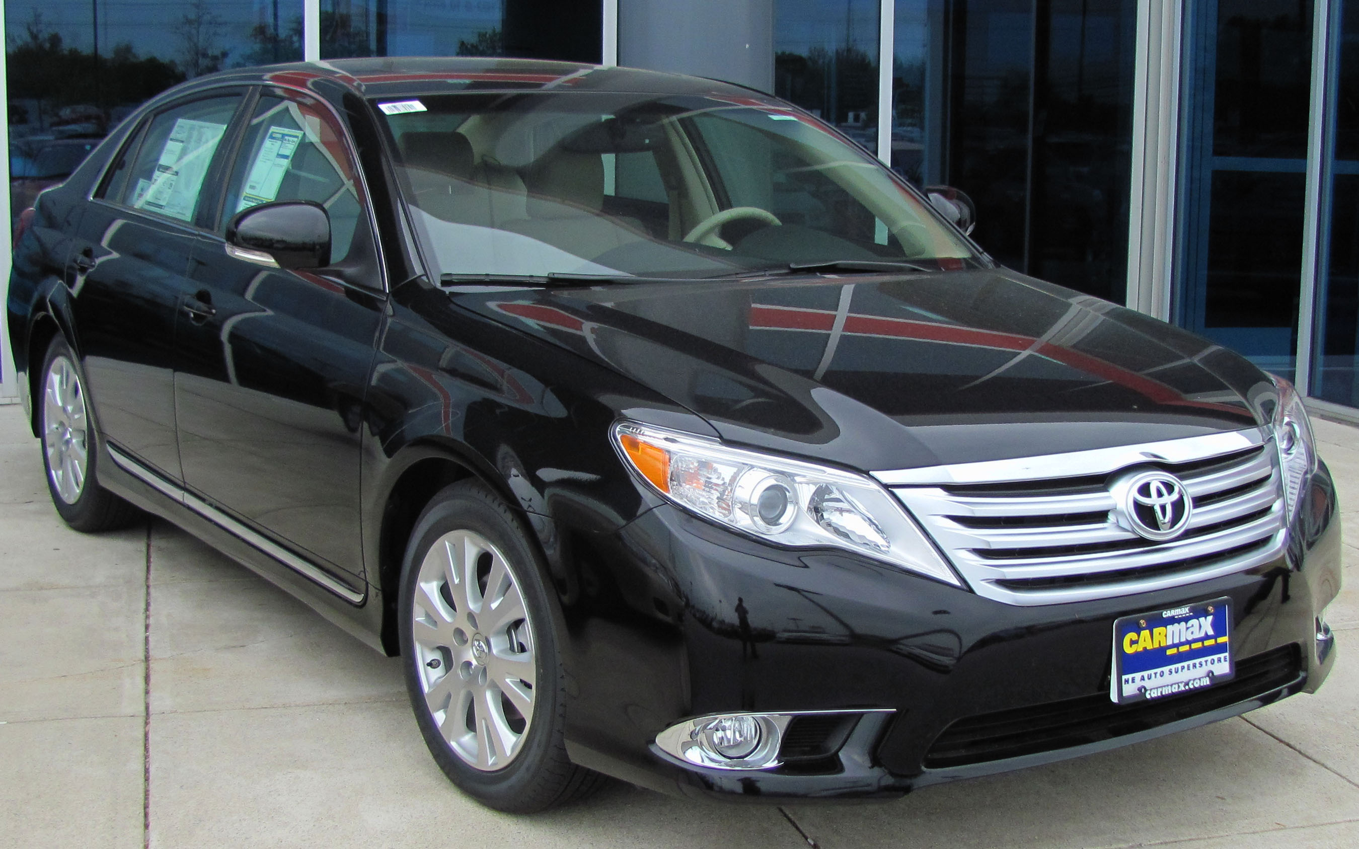 2011 Toyota Avalon photographed in Laurel, Maryland, USA.